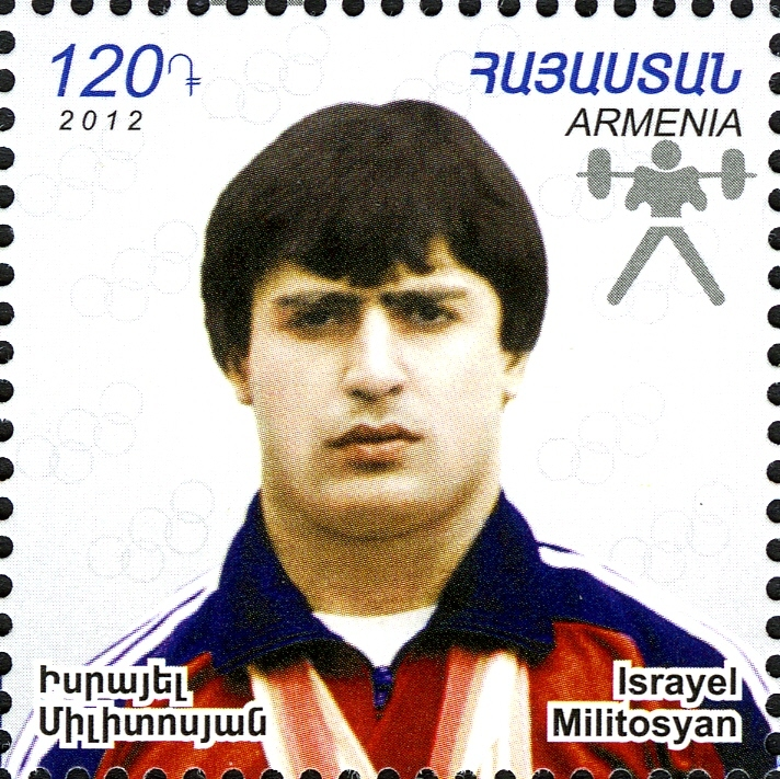 Sport - Olympic Champions - Israyel Militosyan